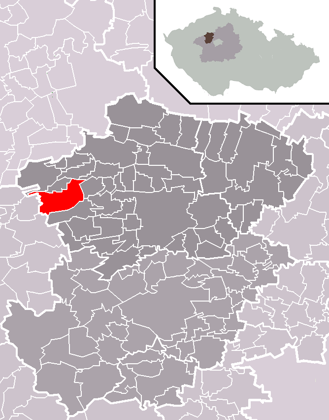 Location of Pozdeň municipality within Kladno District and administrative area of Slaný as a Municipality with Extended Competence.